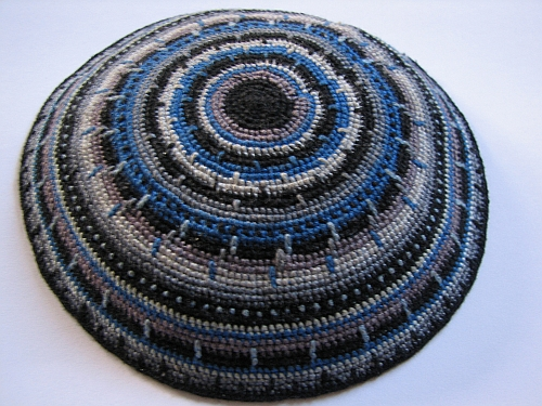 Hand crocheted kippa